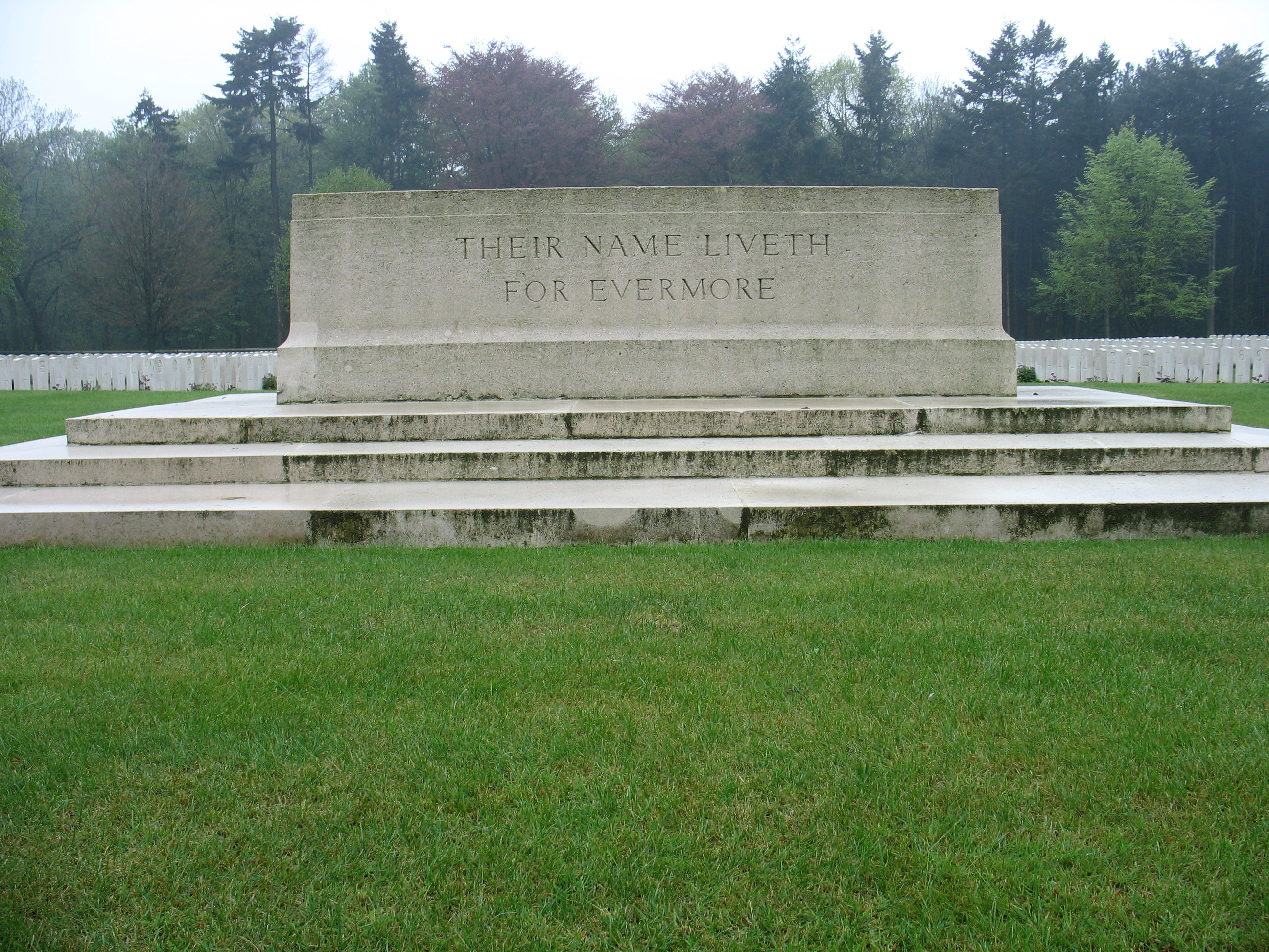 Commonwealth War Cemetery 'Stone of Remembrance' - inscription: Their name liveth for evermore. Taken at Buttes New British Cemetery, near Ypres.